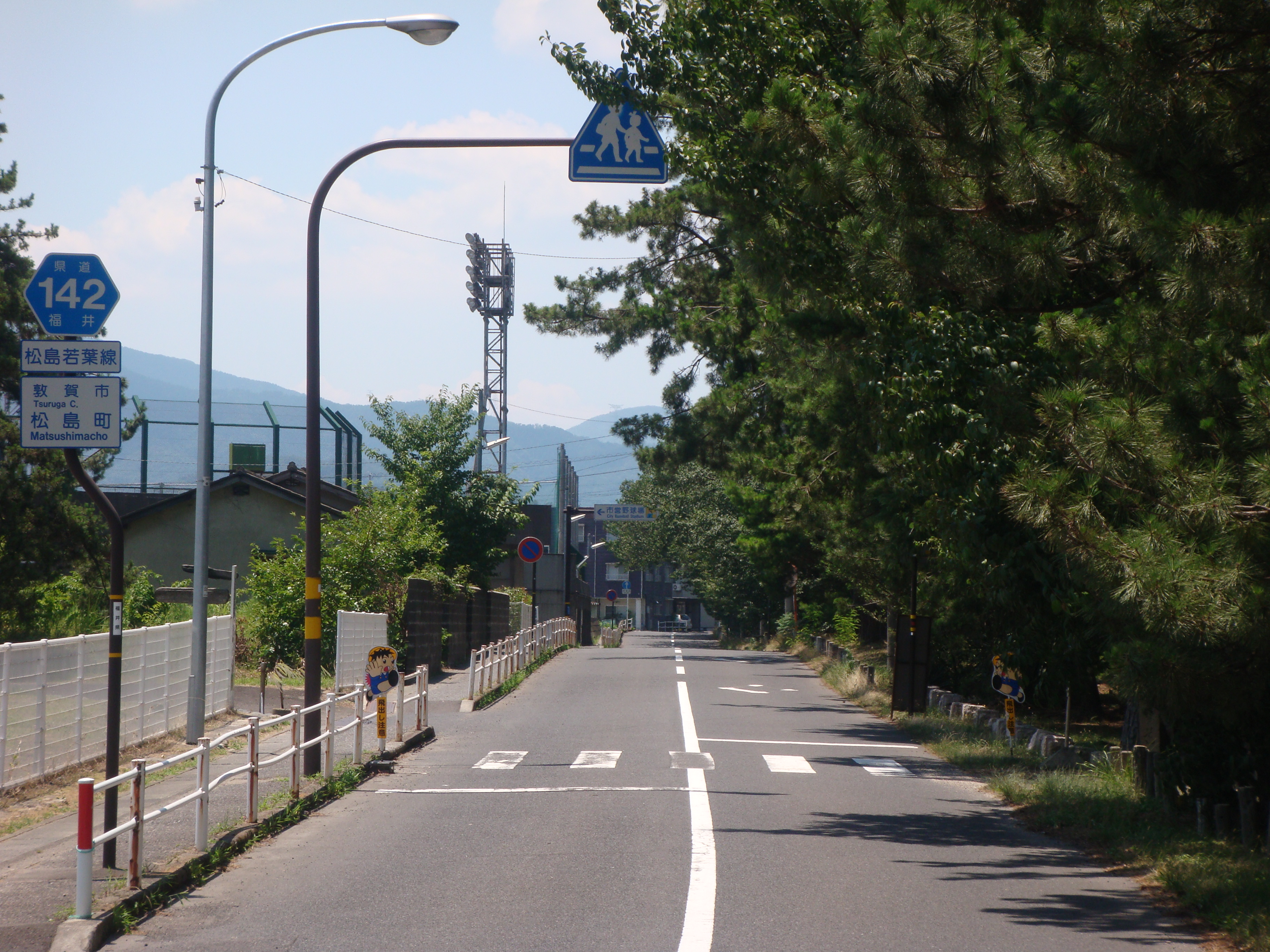 Fukui Prefectural Road Route 142（Matsushima-Wakaba Line） Place - Matsushima-cho,Tsuruga City,Fukui Prefecture,Japan Date - July 16, 2011 Format - JPEG, 3648x2736pixel, 24bit colors Photographer - NALA Wiki (talk)